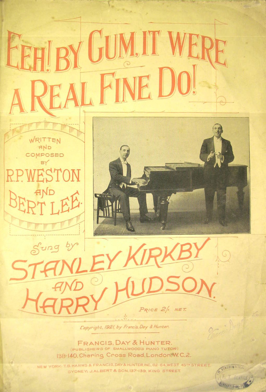 Photo of the sheet music for the song: "Eeh! By Gum It Were a Real Fine Do!" c. 1920.